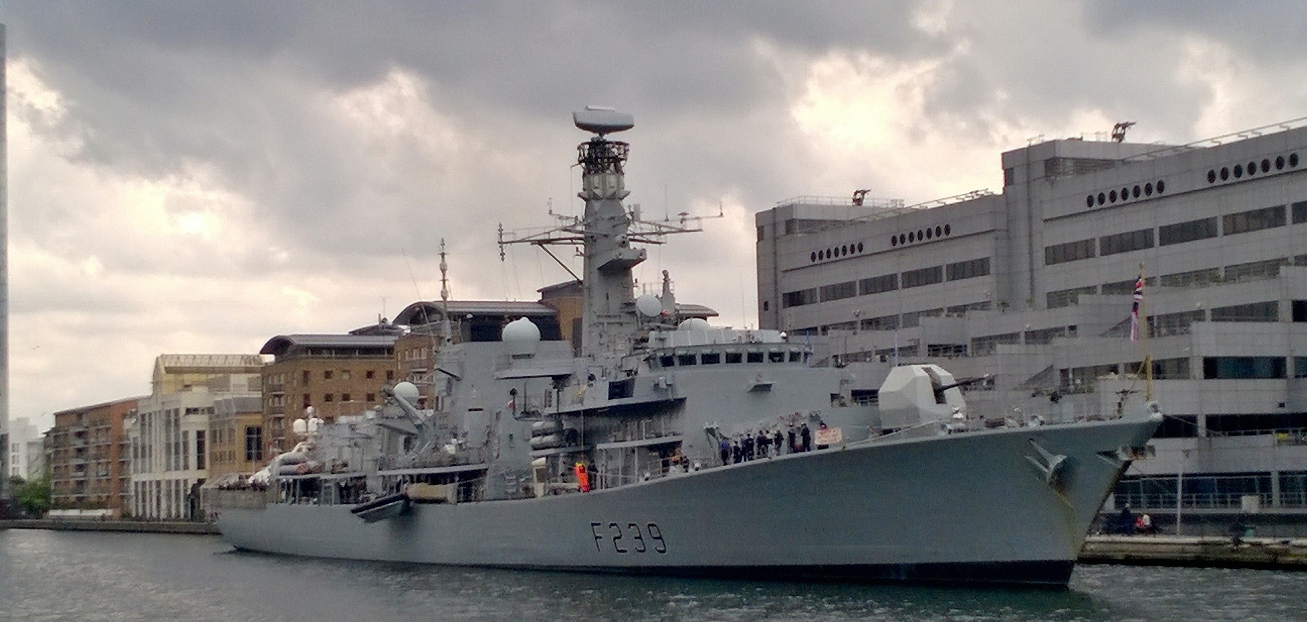 Royal Navy Type 23 frigate HMS Richmond moored at South Quay, part of the West India Docks, in London